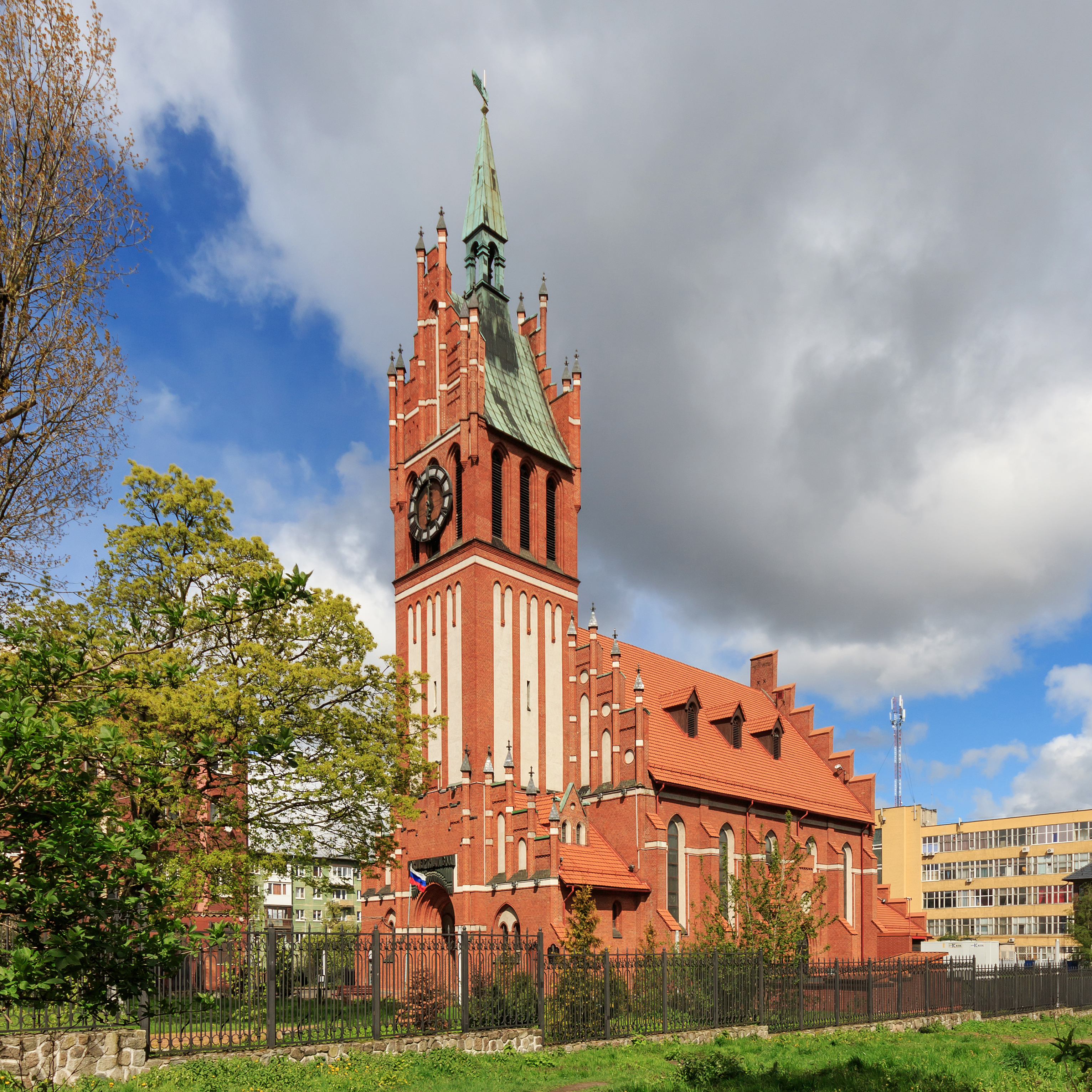 Church of the Holy Family in Kaliningrad formerly Königsberg, Kaliningrad Oblast (Russia).